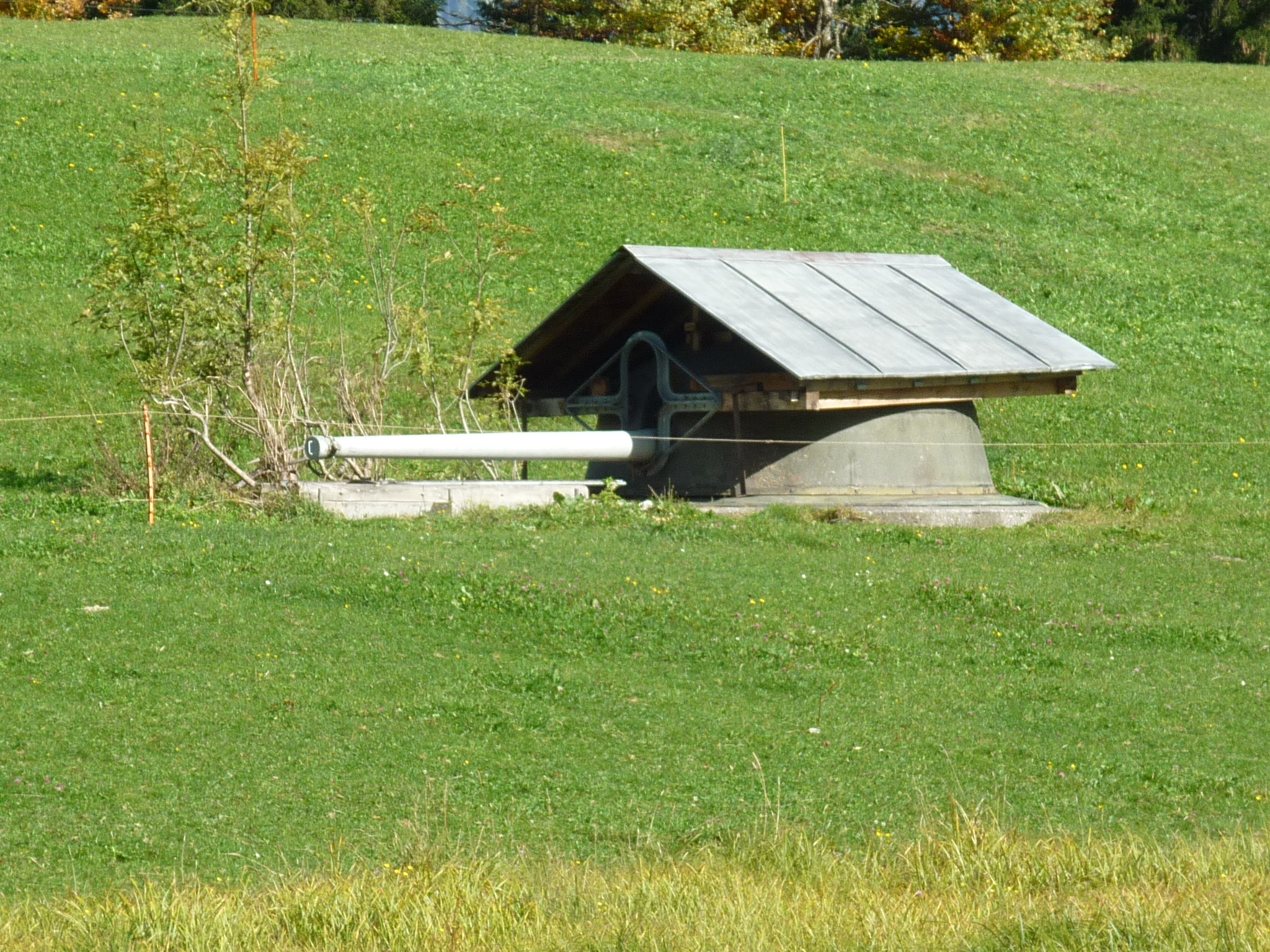 Fort Furkels, Pfäfers SG, Switzerland